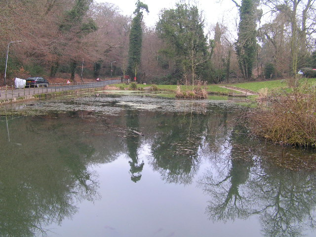 Holden Pond, South of Southborough Common. Large pond on the edge of Southborough Common.